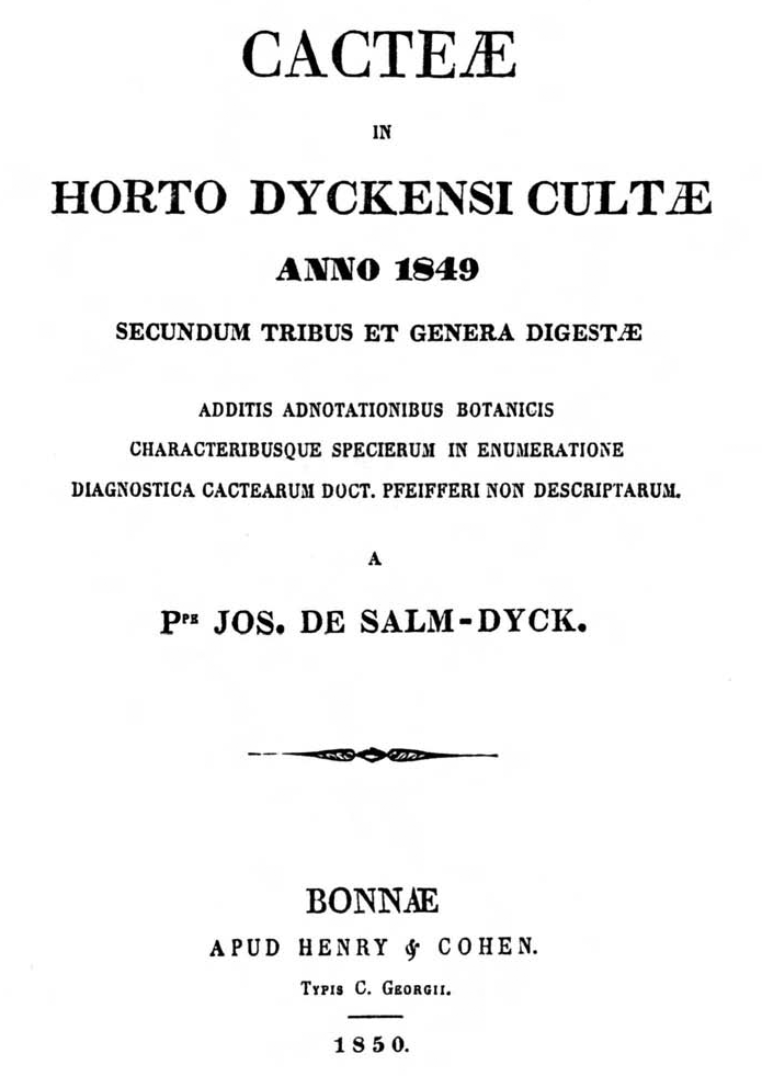 Titlepage of Salm-Dyck's Cacteae in horto Dyckensi cultae anno 1849